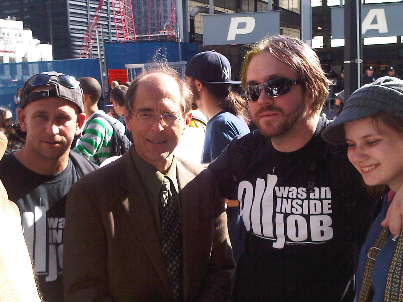 Richard Gage with members of We Are Change at the World Trade Center in New York on September 11th, 2010.